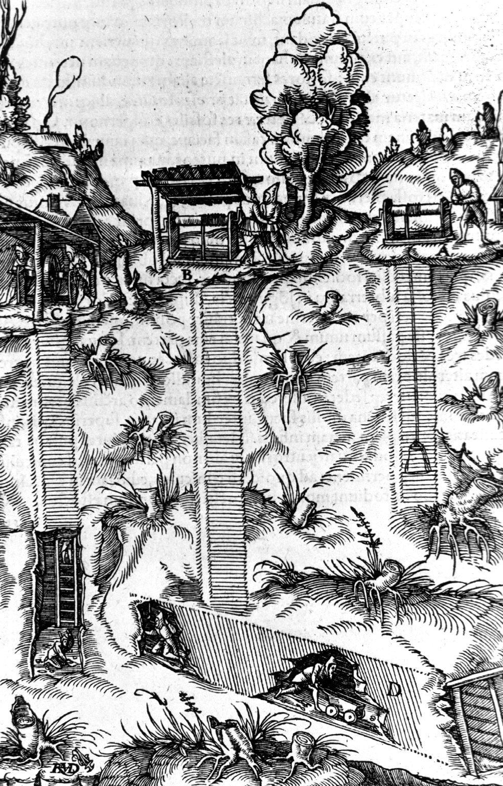 Woodcut from page 72 of De re metallica. Exterior view of a hillside showing above ground pulley mechanisms and subterranean views of miners working in tunnels.